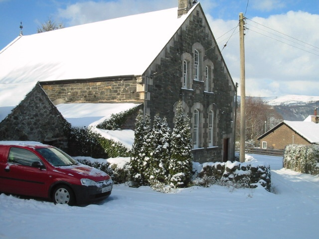 Bethel Chapel, Melin y Coed The rear of Bethel Chapel in Melin y Coed.